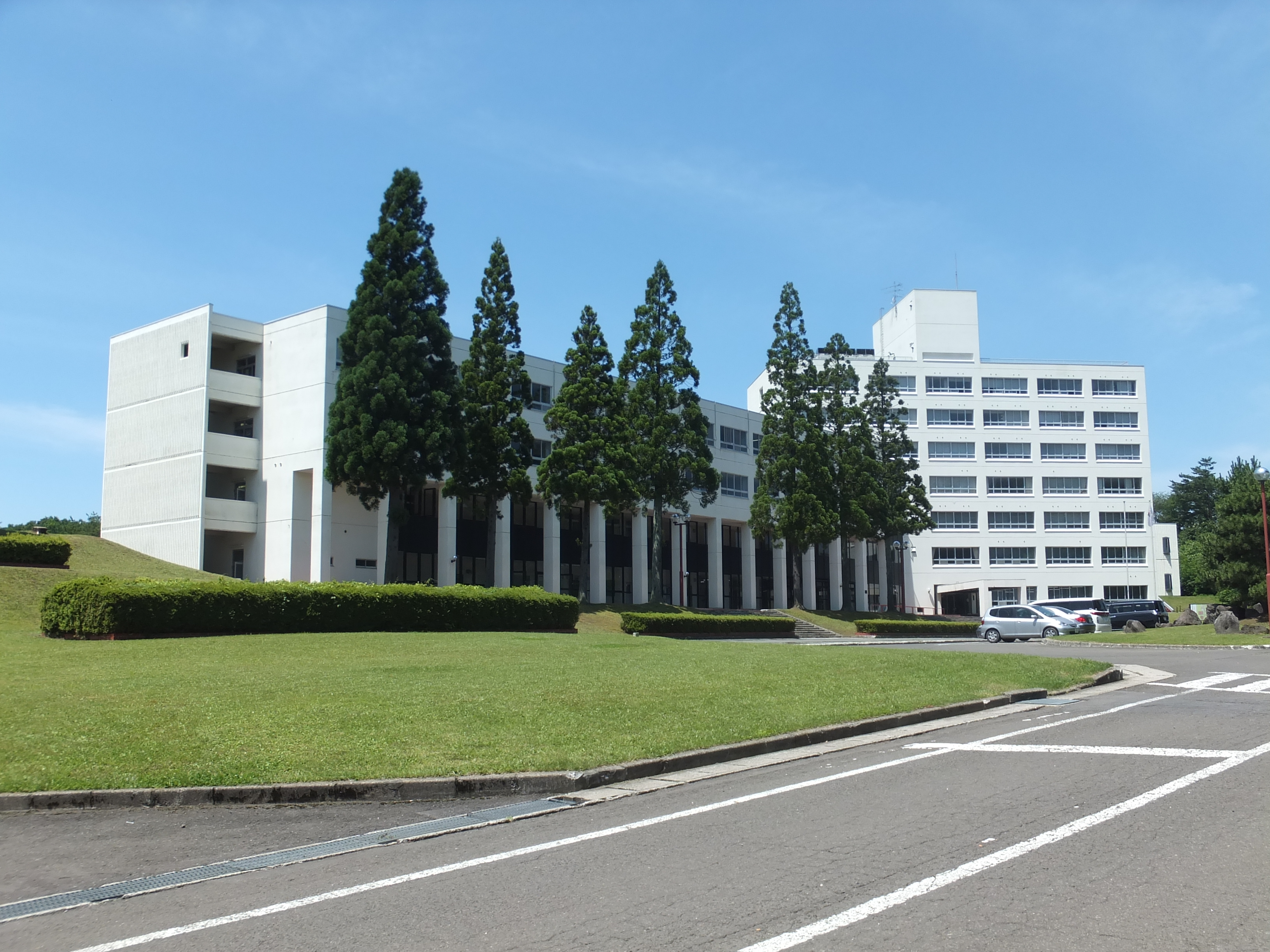 North Asia University located in Akita, Akita, Japan